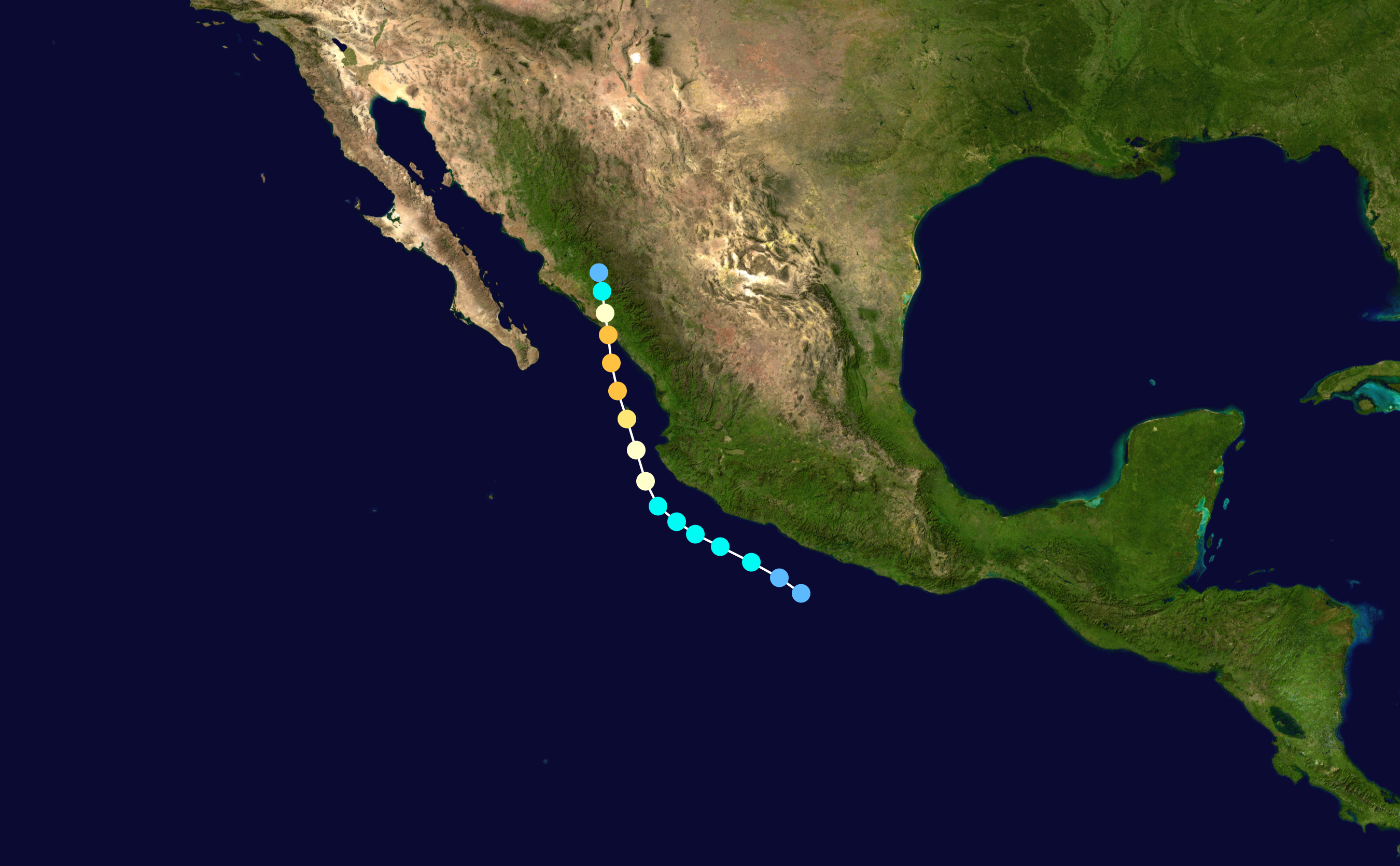 Track map of Hurricane Lane of the 2006 Pacific hurricane season. The points show the location of the storm at 6-hour intervals. The colour represents the storm's maximum sustained wind speeds as classified in the Saffir–Simpson scale (see below), and the shape of the data points represent the nature of the storm, according to the legend below. Saffir–Simpson scale Tropical depression≤38 mph≤62 km/h Category 3111–129 mph178–208 km/h Tropical storm39–73 mph63–118 km/h Category 4130–156 mph209–251 km/h Category 174–95 mph119–153 km/h Category 5≥157 mph≥252 km/h Category 296–110 mph154–177 km/h Unknown Storm type Tropical cyclone Subtropical cyclone Extratropical cyclone / Remnant low / Tropical disturbance / Monsoon depression